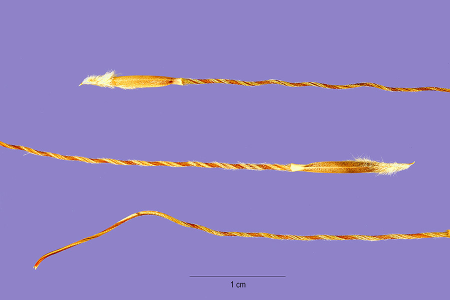 Fruit of the bunchgrass Nassella leucotricha (Texas wintergrass).